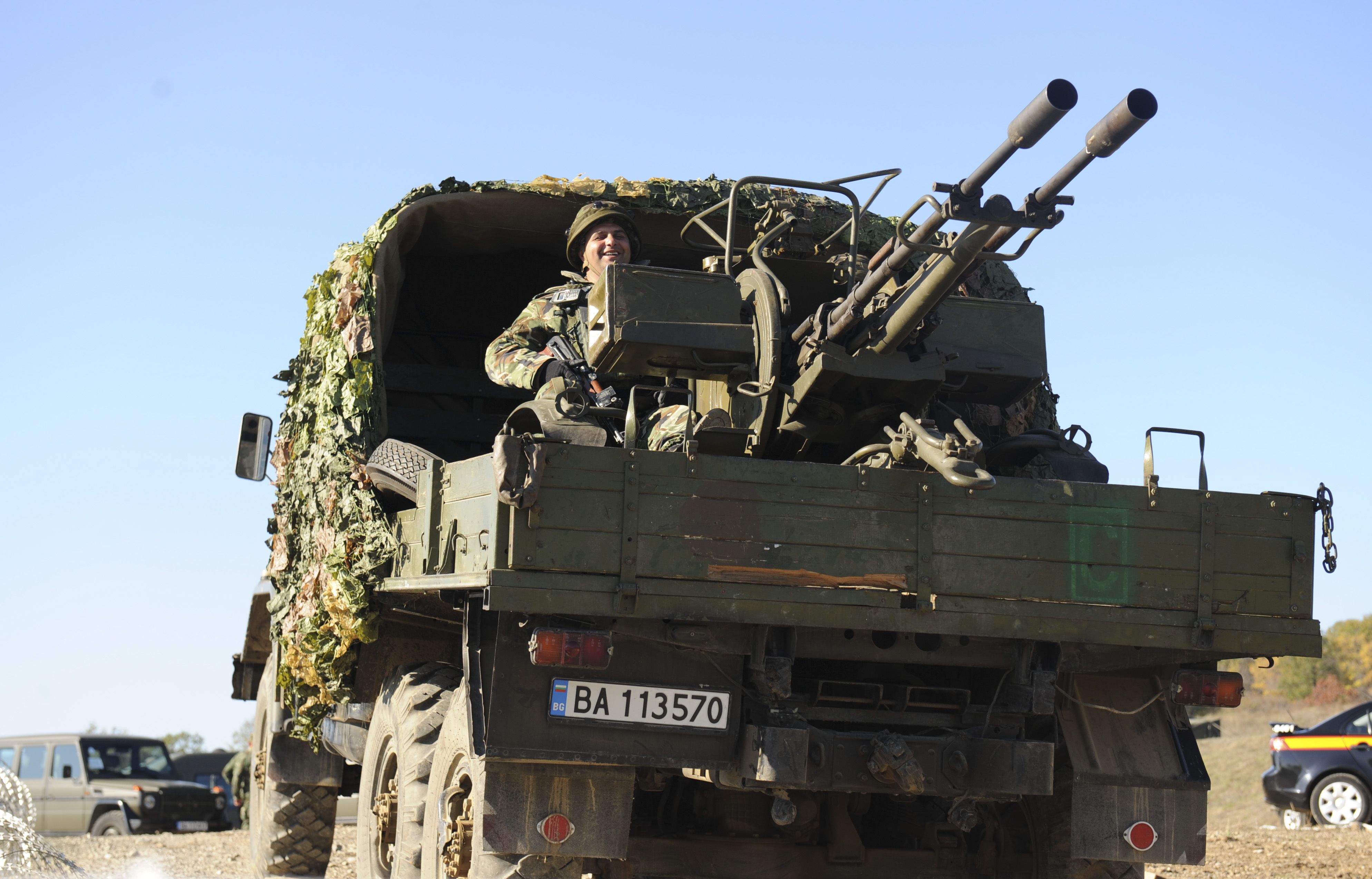 NOVO SELO, Bulgaria -- Soldiers with 1st Battalion, 61st Mechanized Brigade conduct security at an entry control point during Allied Force 12 here Oct. 8. Allied Force 12 is an exercise involving U.S. Army Europe’s 172nd Infantry Brigade Combat Team, the 173rd Airborne Brigade Combat Team and the Bulgarian 1st Battalion, 61st Mechanized Brigade and designed to test the Bulgarian Land Forces first battalion combat team for readiness to deploy in support of contingency operations.